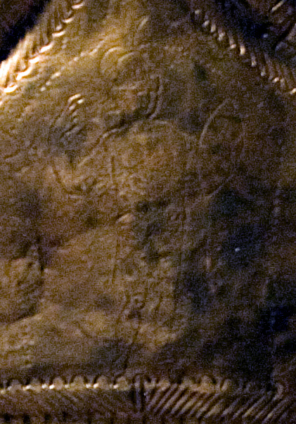 Detail of the engraving of Minerva on the Guisborough Helmet (colours exaggerated for visibility)